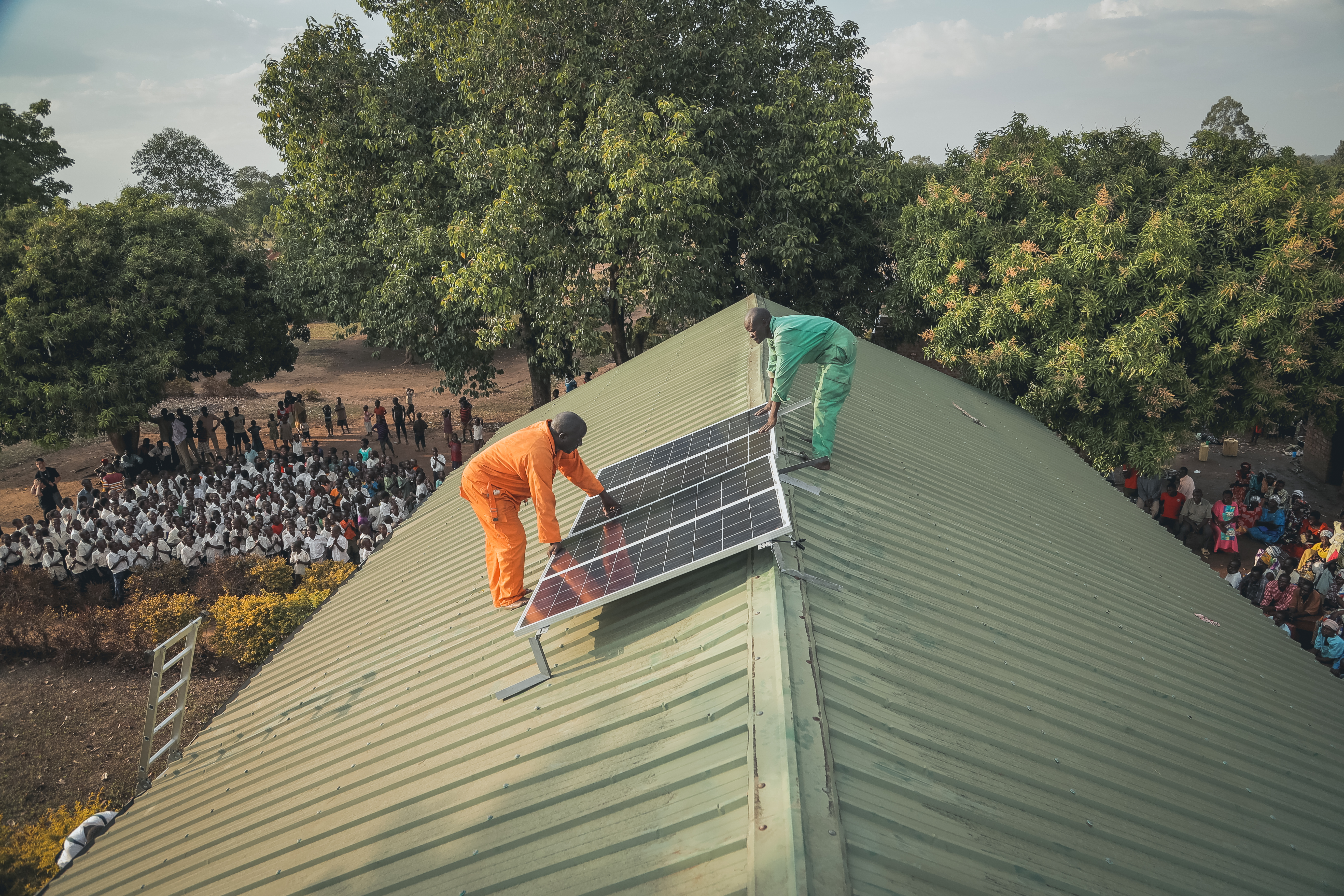 Solar Panel Installation at Nyanza Primary School in Uganda